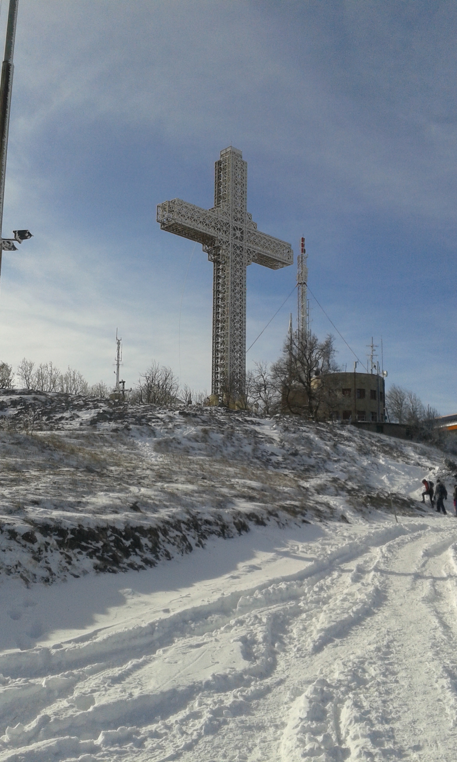 Millennium Cross in Skopje (wintertime)